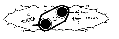 Plan diagram of the USS Texas from the 1900 edition of Jane's Fighting Ships